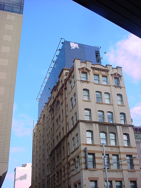 Graffiti way up high